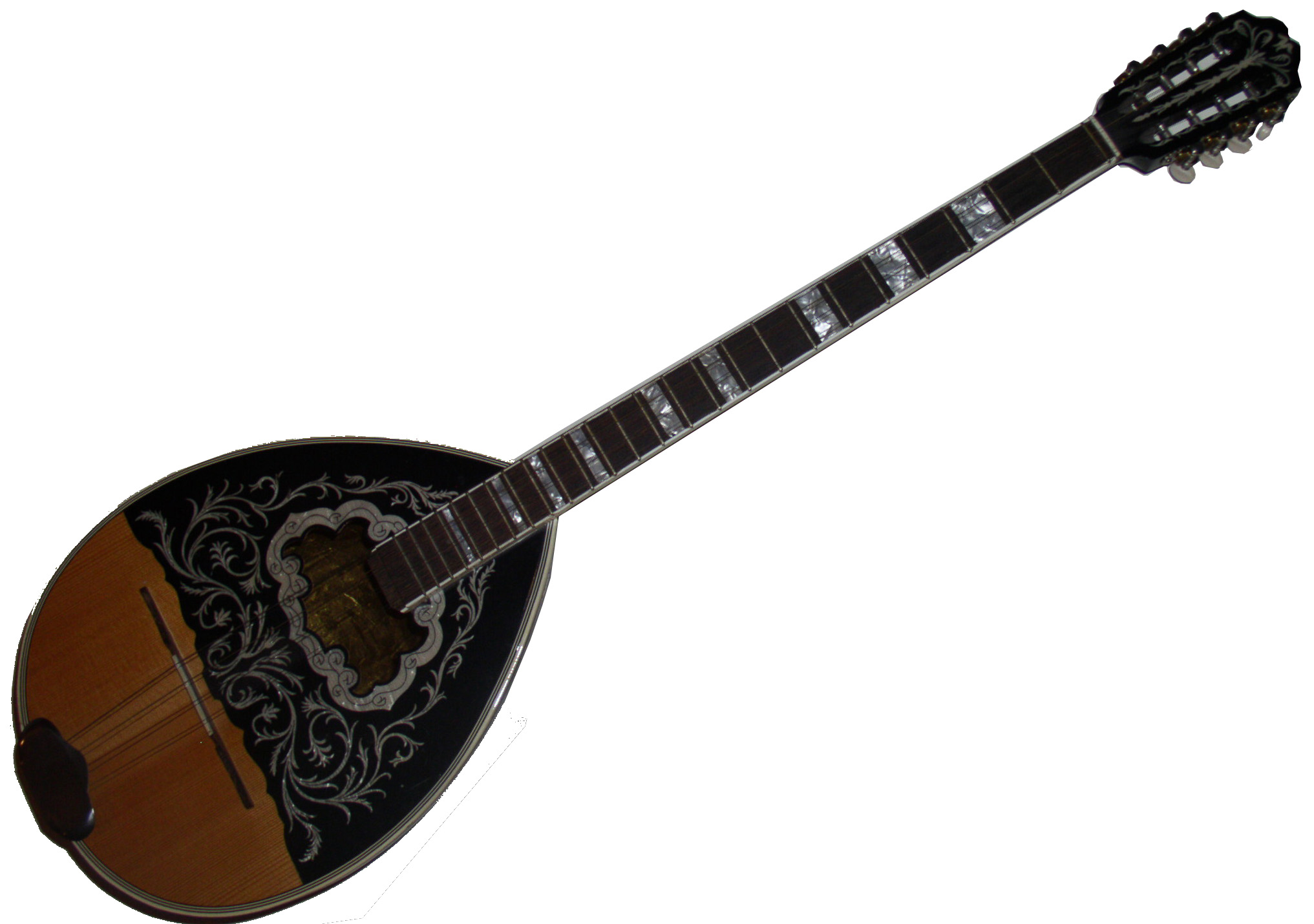 Greek bouzouki - front own picture